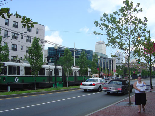 Photo showing four forms of transportation in Boston, Massachusetts, including an above-ground Green Line train, a taxicab, a privately-owned vehicle, and a person walking.